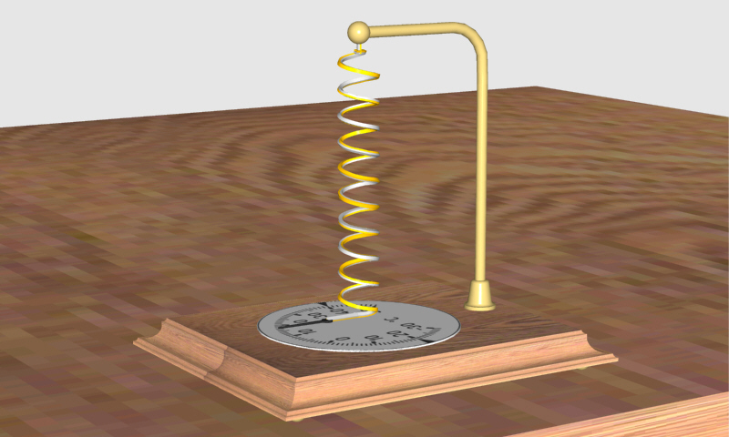 Breguet Thermometer